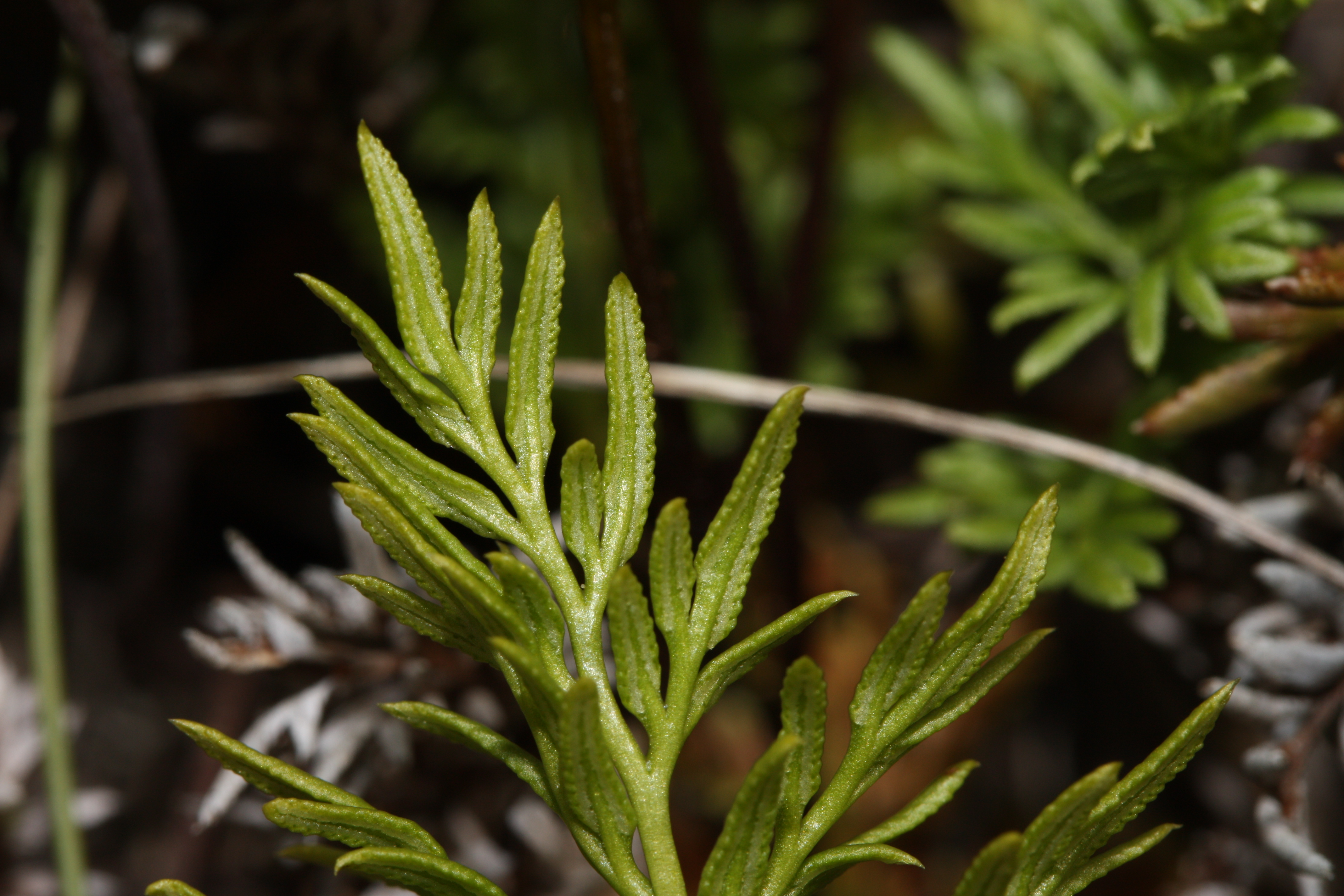 Indian's Dream, Oregon Cliff Brake, Podfern